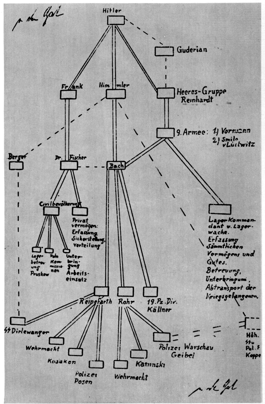 It's my own faithful copy of picture: Command Hierarchy of German forces realizing destruction of Warsaw in 1944, drawing by von dem Bach. Source: (Polish) Adolf Ciborowski: Warszawa - o zniszczeniu i odbudowie miasta, Warsaw 1969, "Interpress" Publishers, p. 57